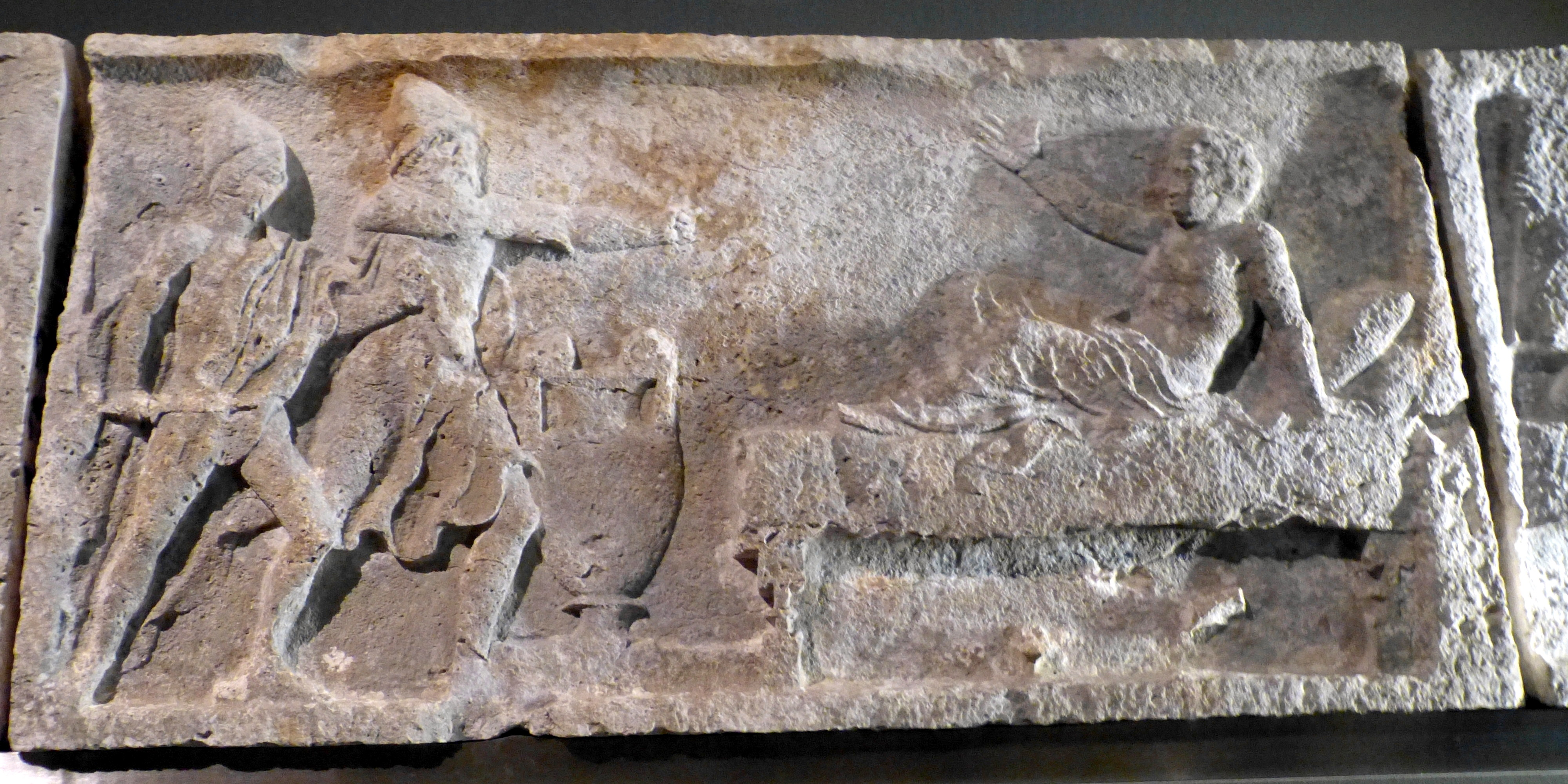 Vienna ( Austria ). Kunsthistorisches Museum: Ancien Greek reliefs ( 380s BC ) showing the slaughter of the suitors by Odysseus, from the Heroon in Trysa ( Lycia ).